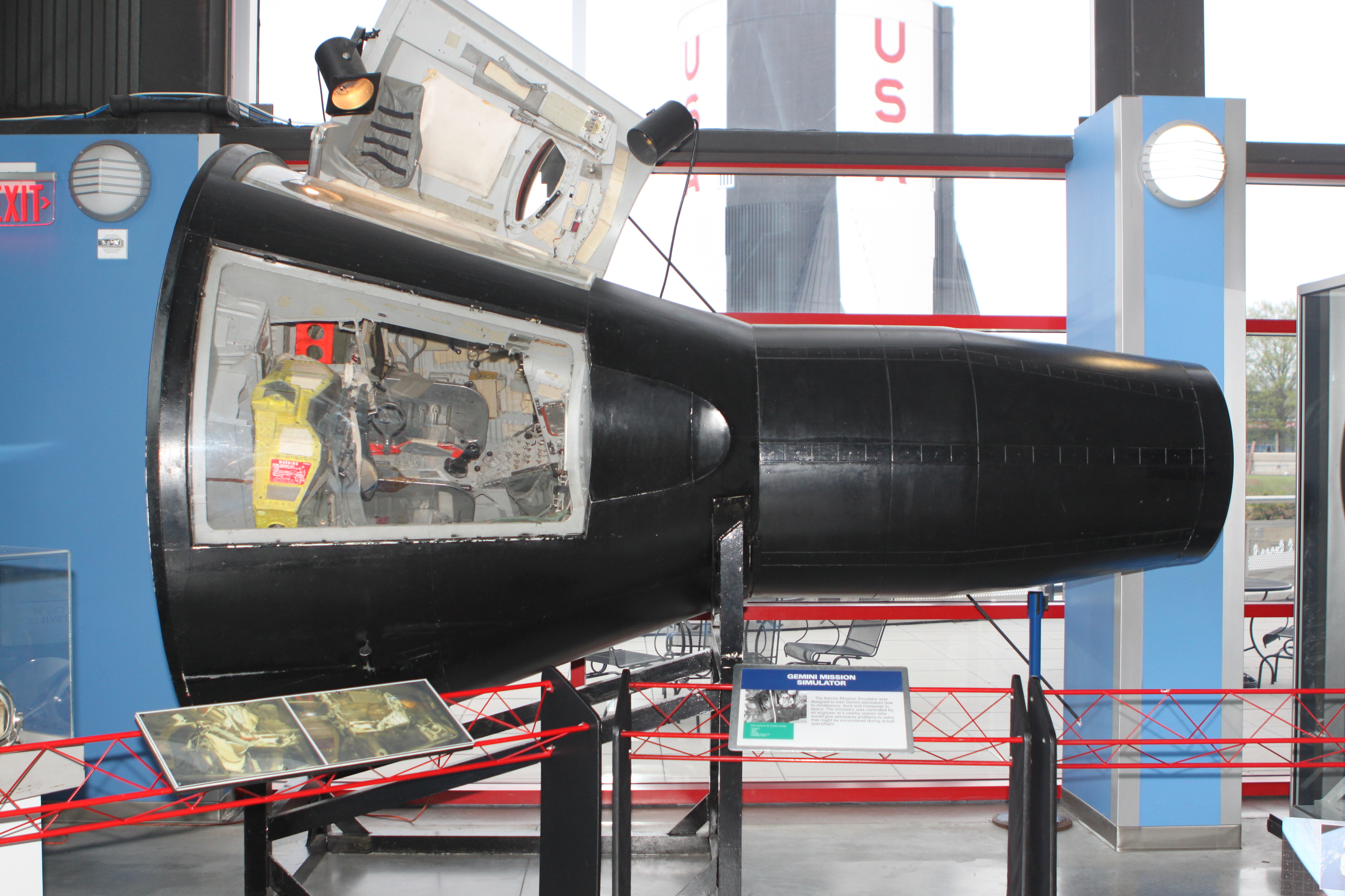 Astronauts practiced rendezvous, docking, and maneuvering in this Gemini Mission Simulator.